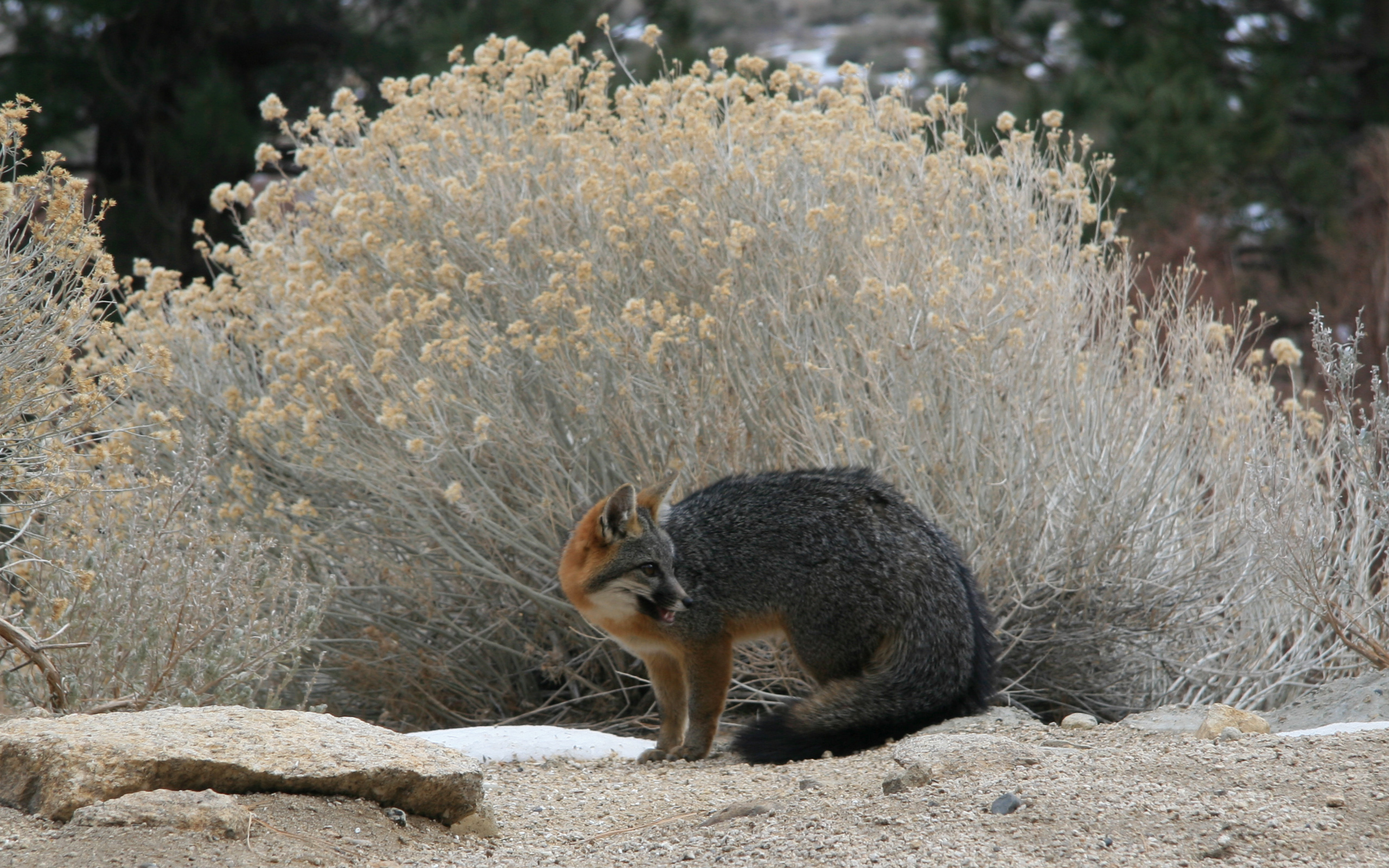 Urocyon cinereoargenteus (gray fox) at 7000ft in Eastern Sierras, in front of rabbitbrush. Showing profile, teeth, and black stripe on full tail.